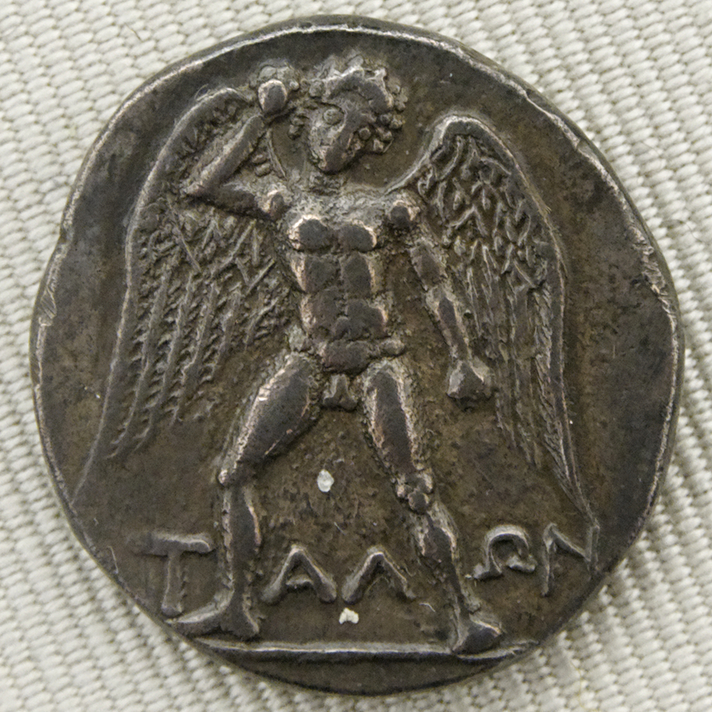 The Giant Talos armed with a stone. Silver didrachm from Phaistos, Crete (ca. 300/280-270 BC), obverse.